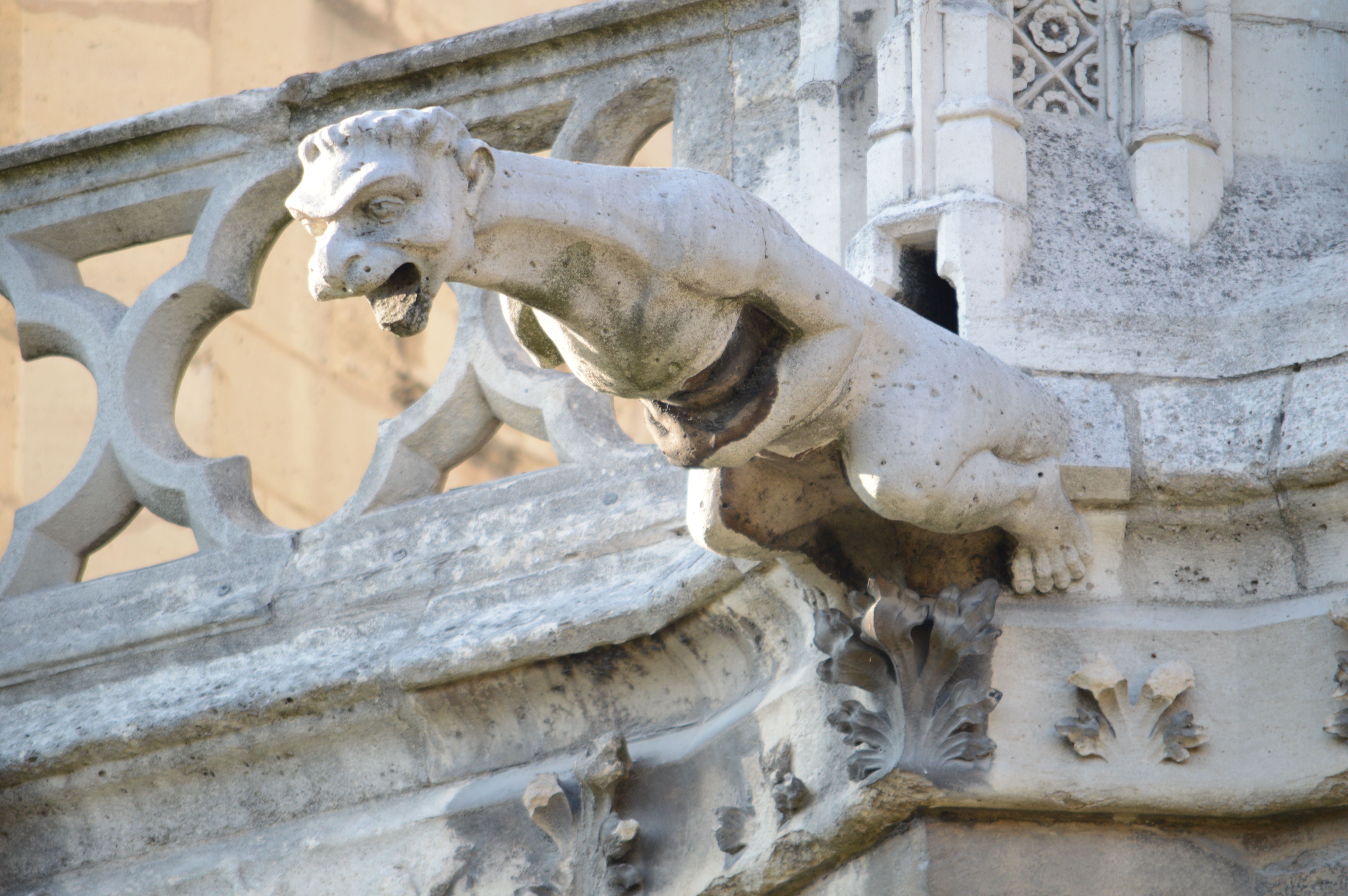 Gargoyles of Notre-dame